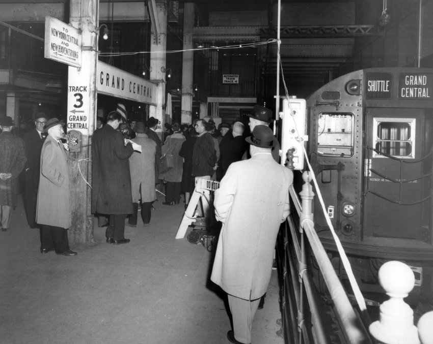 Taken in 1962. This photo shows the Grand Central Shuttle platform between Track 3 and Track 4 in 1962. The automated train is on the right. Photo courtesy of the NY Transit Museum.